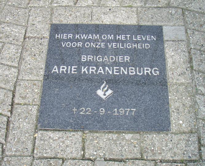 Picture of a memorial stone for Arie Kranenburg, a Dutch police officer from Utrecht who was murdered by Knut Folkerts a member of the Rote Armee Fraktion at the Croeselaan in Utrecht NL.